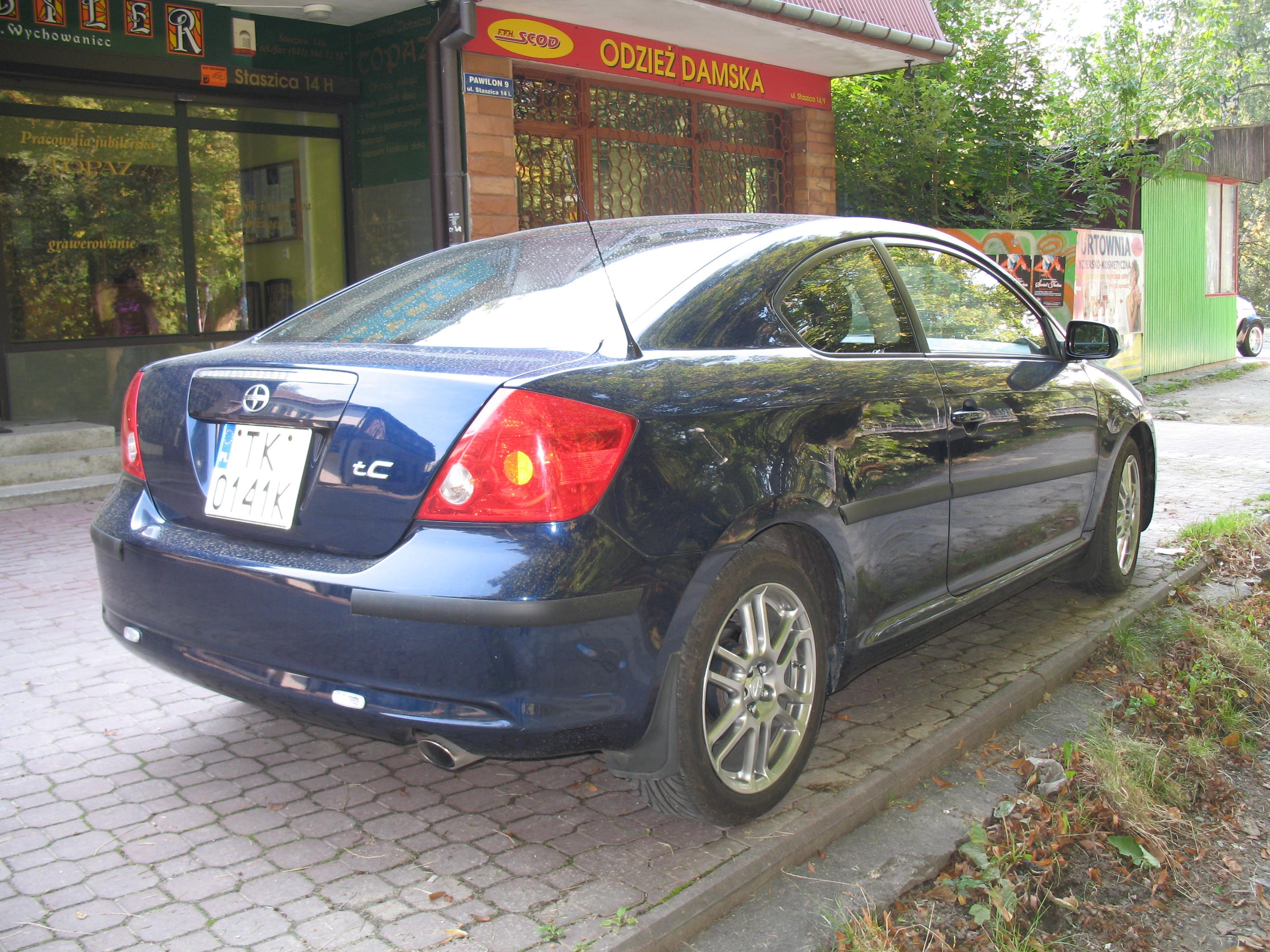 Scion tC in Kielce, Poland.